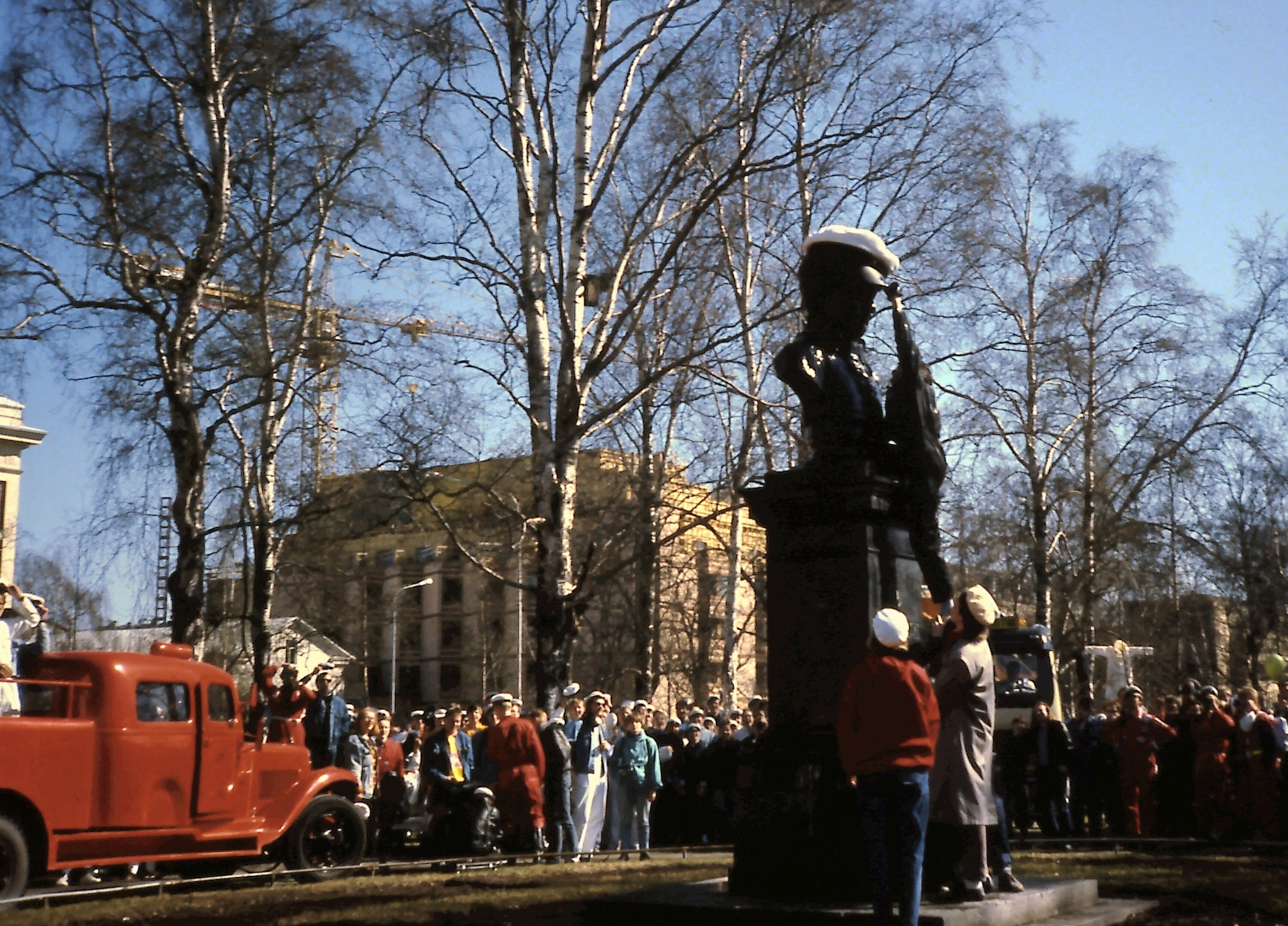 A student cap is put on the Frans Michael Franzén statue on the Vappu Eve 1989.